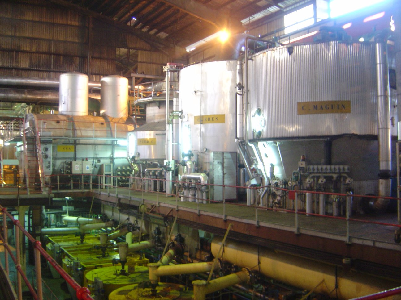 Elements of a sugar plant at the Sucrerie de Bois-Rouge on Réunion island: vacuum pans and centrifugals